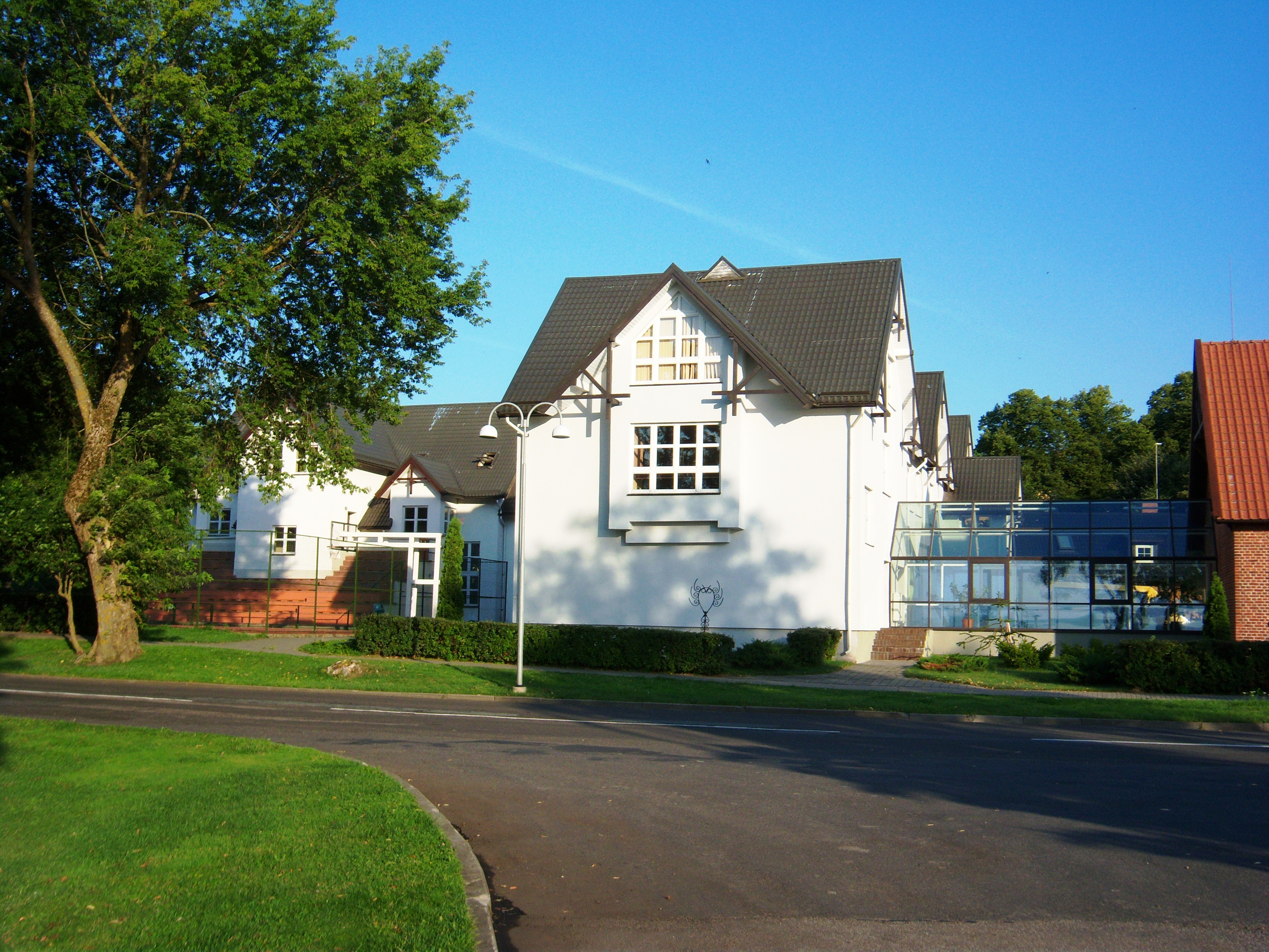 Juodkrantė Liudvikas Rėza Sea Cadet School, Lithuania